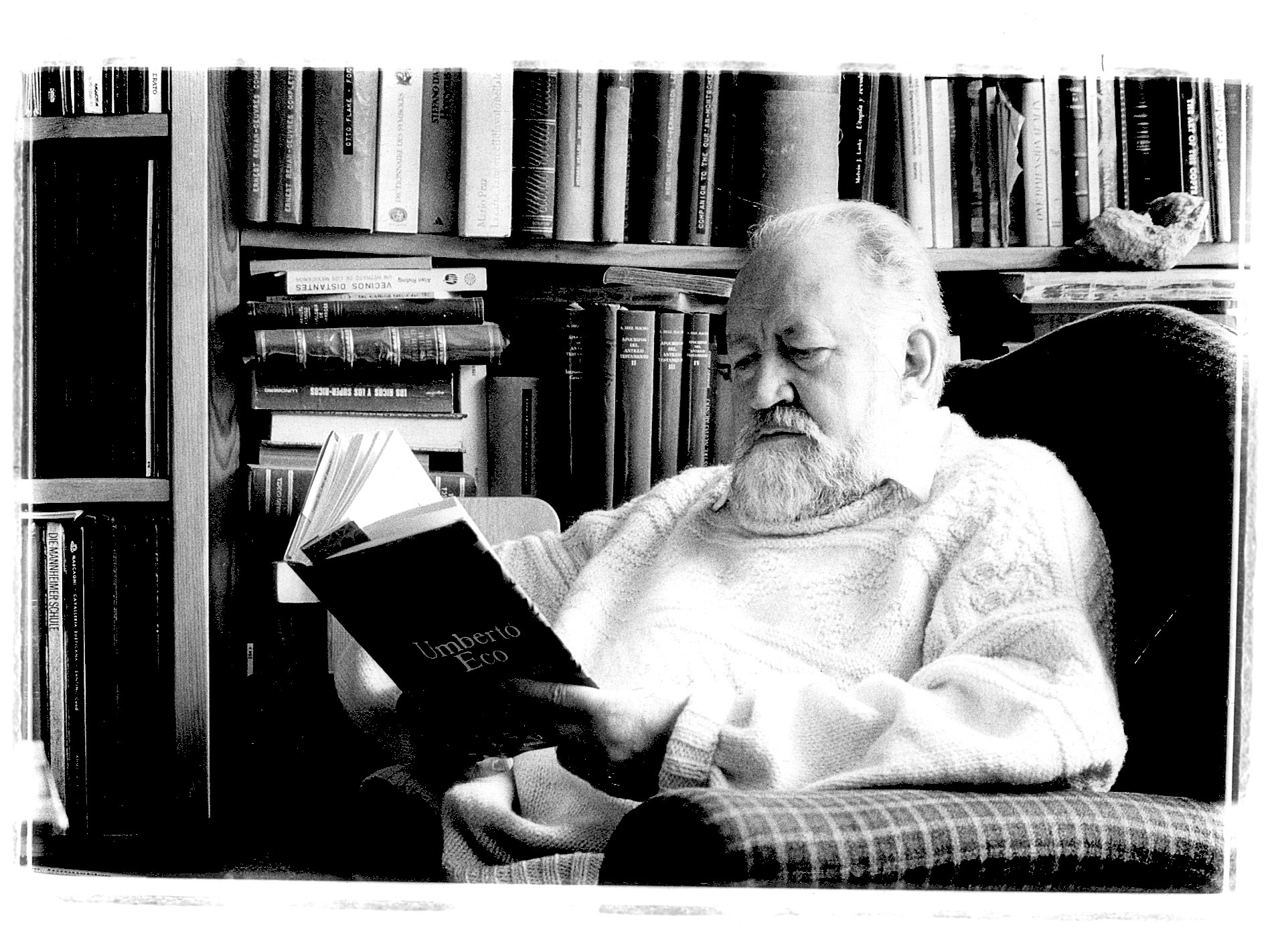 Mexican Author, Translator and Polymath Ernesto de la Peña, reading in his personal library